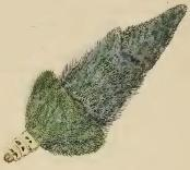 Stainton’s Natural History of the Tineina (1855–1873): Coleophora lineolea larval case